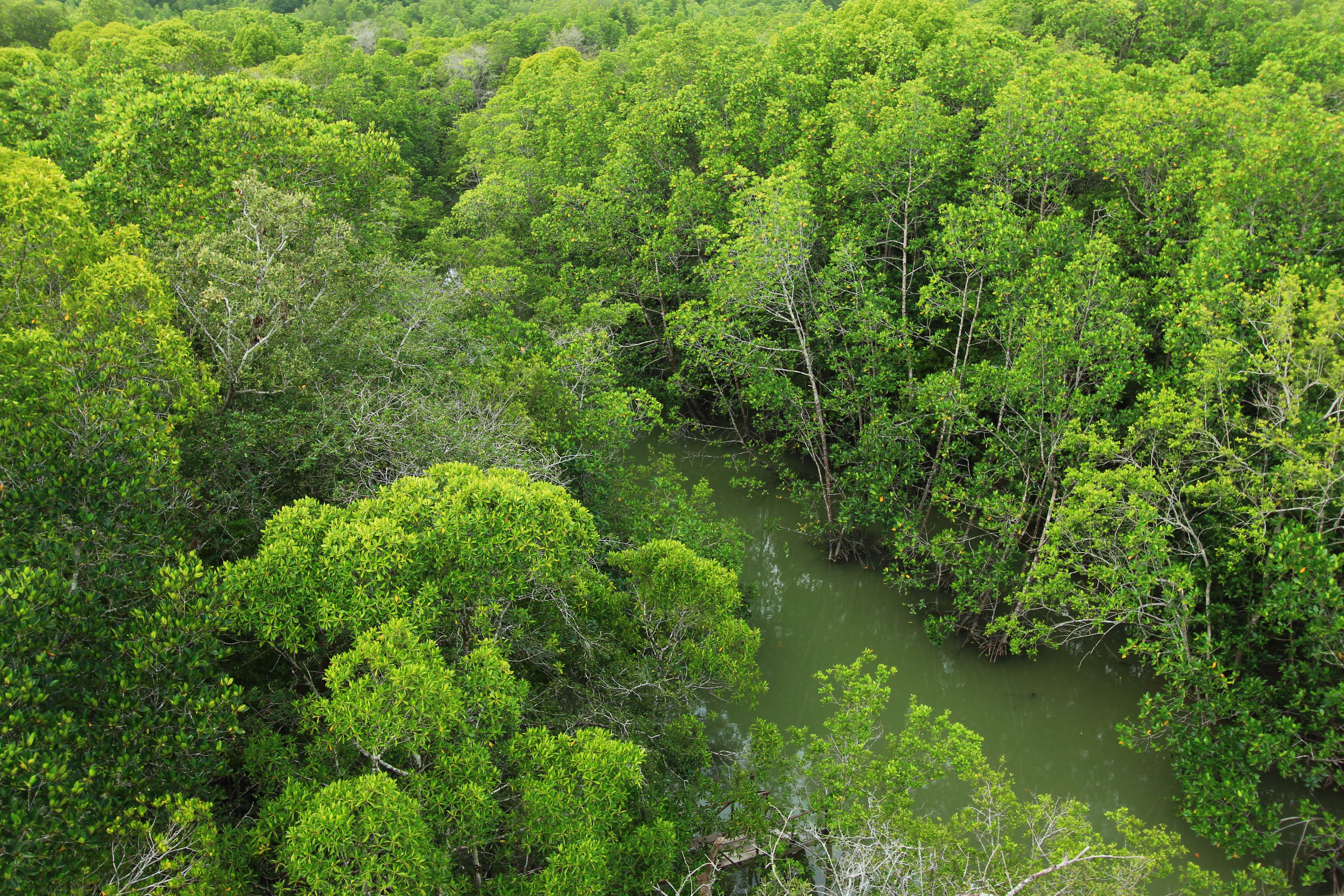 Vegetation (Mangrove forest) at Taman Negara Johor Pulau Kukup